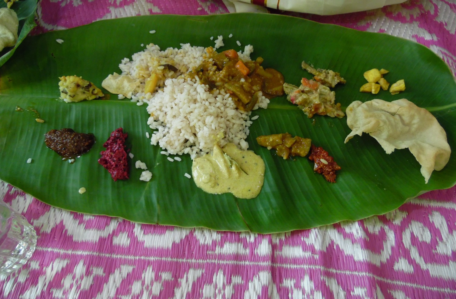 Ona sadya getting ready in banana leaf traditional kerala style.